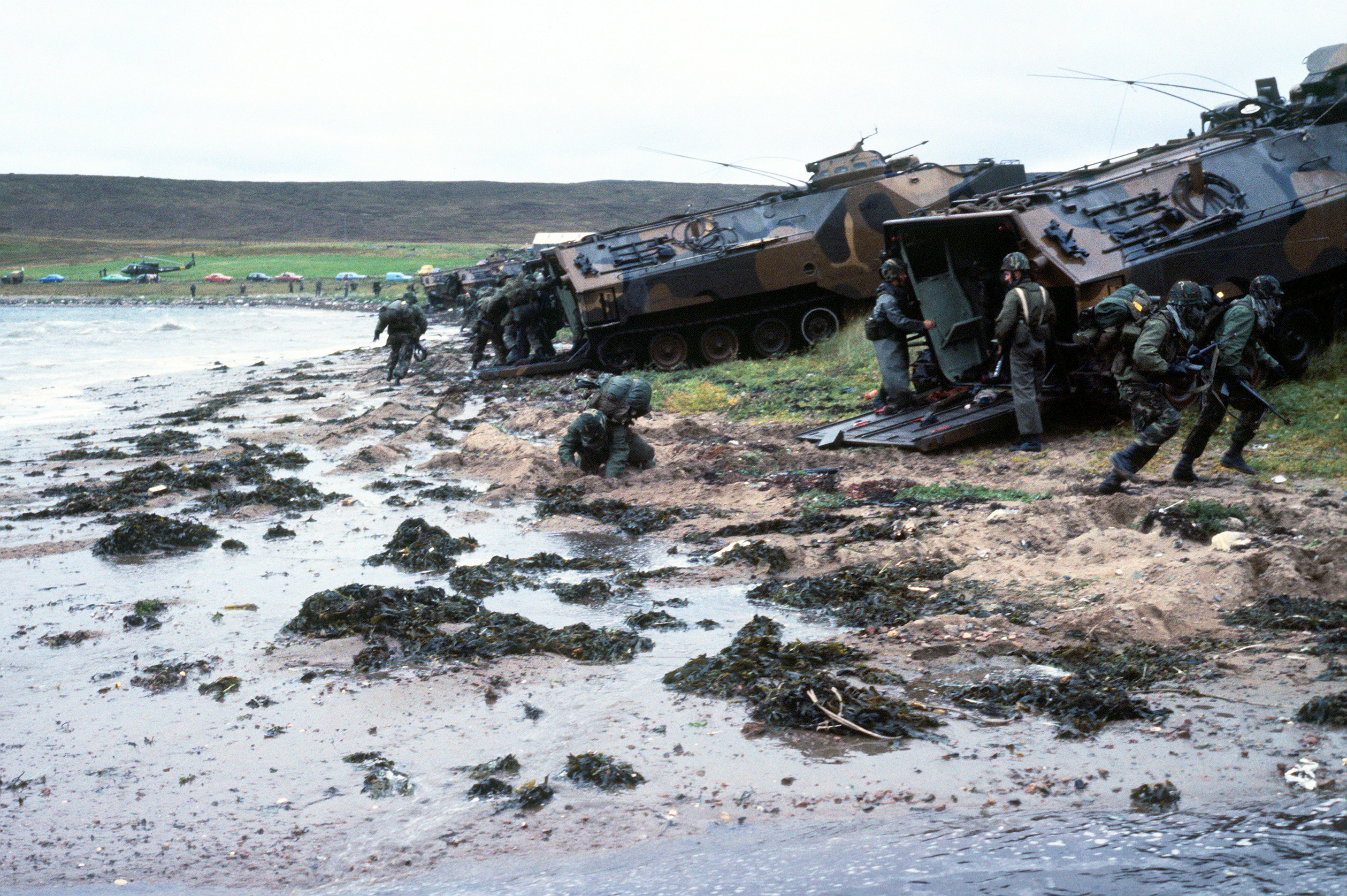 Combat-ready Marines of the 4th Marine Amphibious Brigade charge out of LVTP-7 tracked landing vehicles on Red Beach during the NATO exercise Northern Wedding 78 on Shetland Island in Scotland.